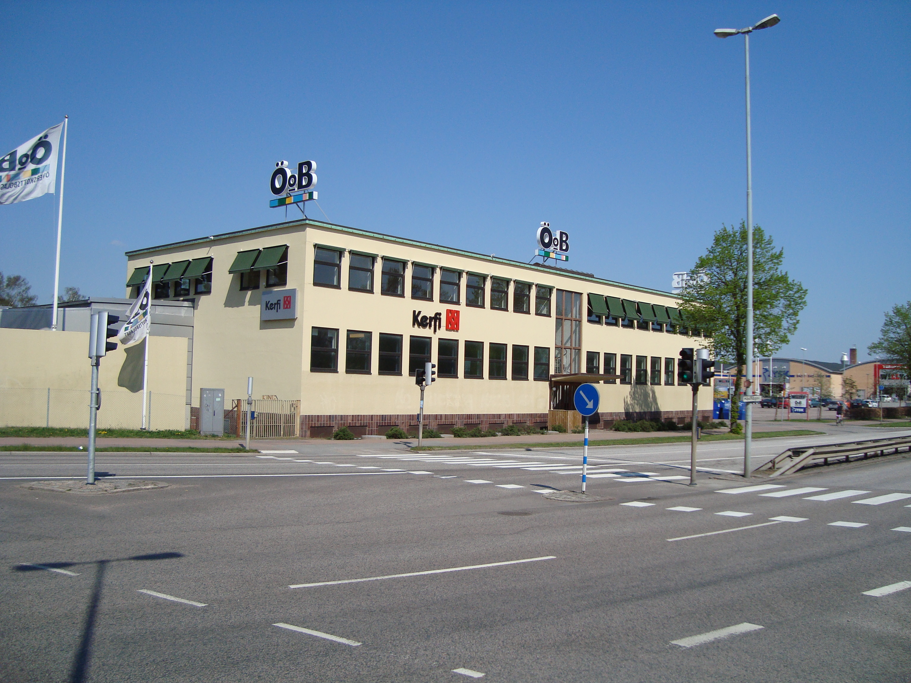 Former building of bicycle manufacturer King.